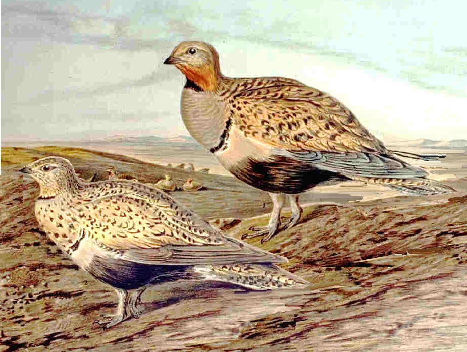 female Pterocles orientalis - Ganga unibande - Black-bellied Sandgrouse - Sandflughuhn male Pterocles orientalis - Ganga unibande - Black-bellied Sandgrouse - Sandflughuhn